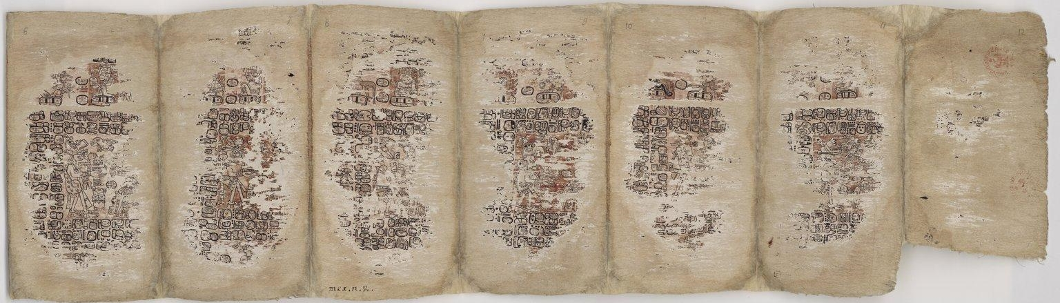 Pages 6-12 of the Paris Codex, a Postclassic Maya book.